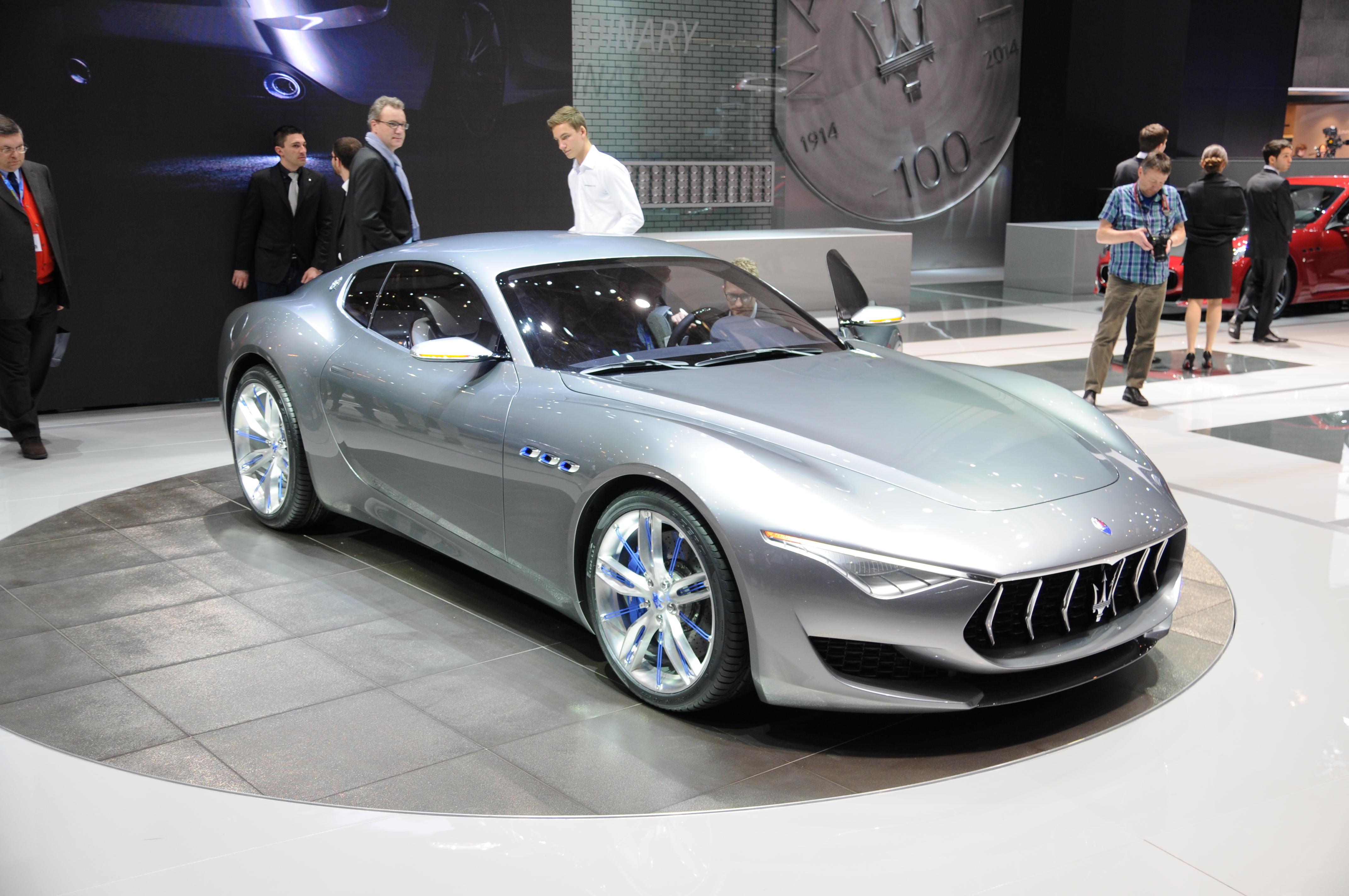 Geneva Motor Show 2014 (photo taken on the first press day)